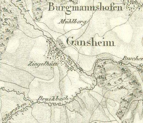 Gansheim on a historical map from 1823